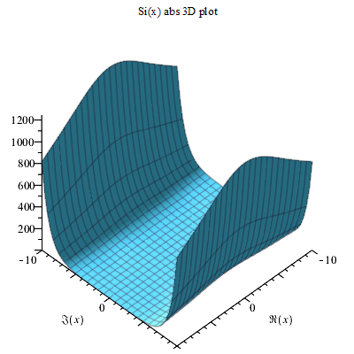 Si(x) abs complex 3D plot